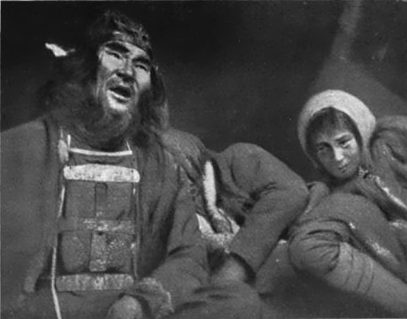 1913 photograph of a shaman of the Ket people. Caption says "Shaman of the Yenisei-Ostiaks (Sumarokova, Sept. 16th)".